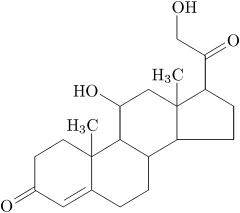 Corticosterone structural diagram Created by Maxim Iorsh with xymtex \documentclass{letter} \usepackage{epic,carom} \pagestyle{empty} \begin{document} \begin{picture}(1000,500) \put(0,0){\steroid[d]{3D==O; 10 ==\lmoiety{H{3 ; 13 ==\lmoiety{H{3 ; 11 ==HO \put(684,606){\sixunitv{}{2D==O;1==OH}{cdef \end{picture} \end{document}